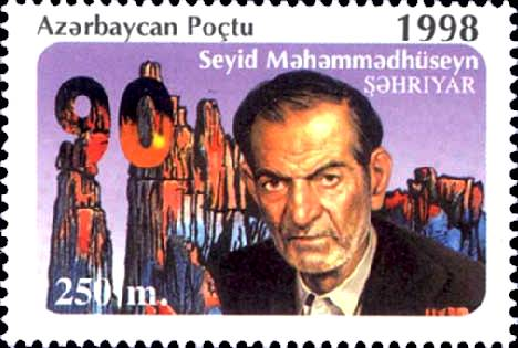 Stamp of Azerbaijan